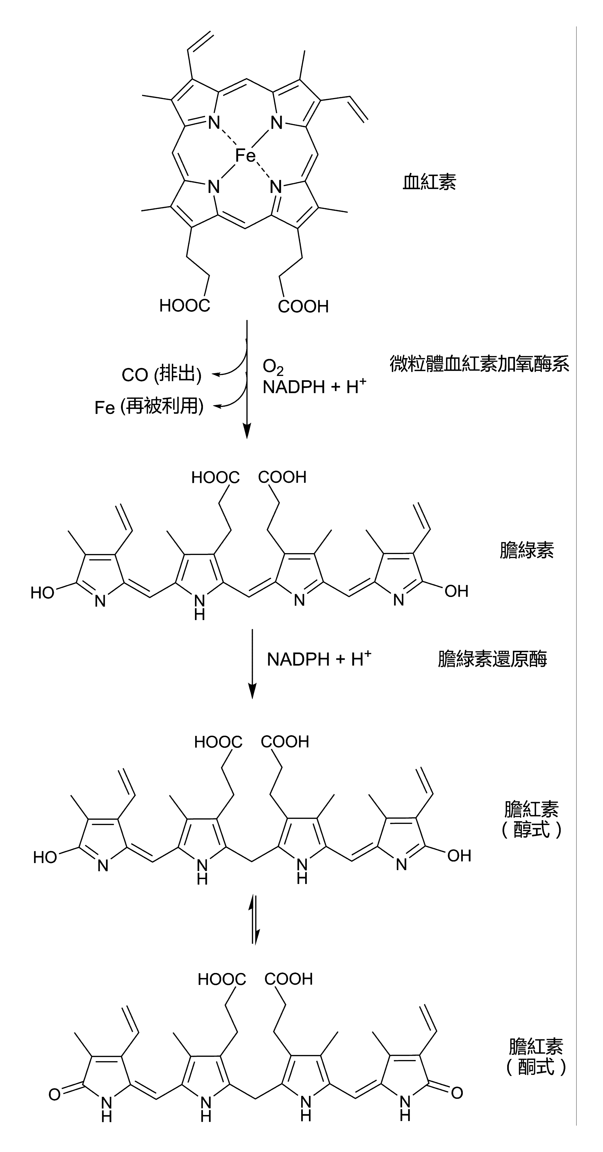 biosynthesis of bilirubin (in Traditional Chinese)